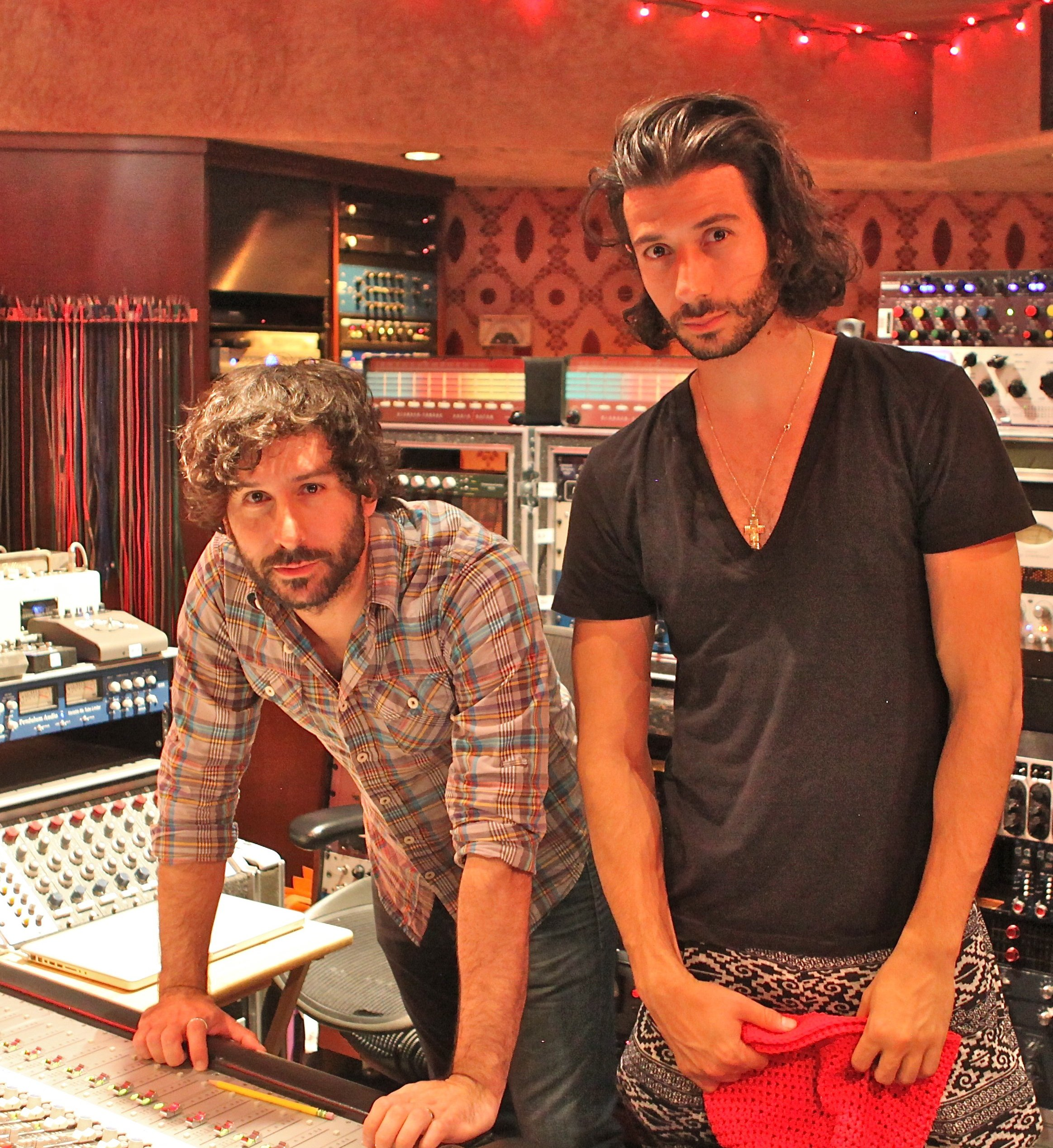 The Messengers at Larrabee Studios in Los Angeles CA, May 2013